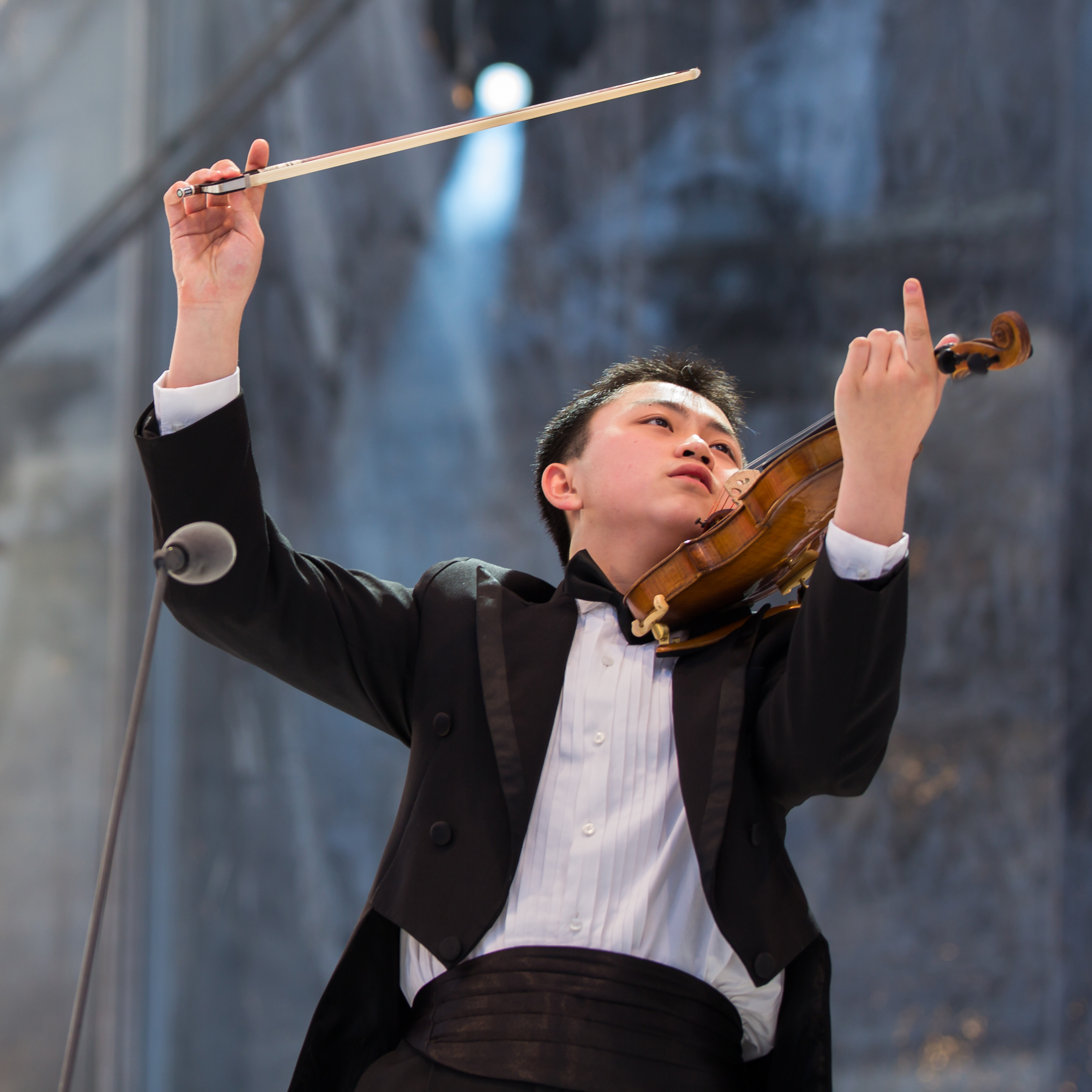 Ziyu He at final rehearsal for Eurovision Young Musicians 2014